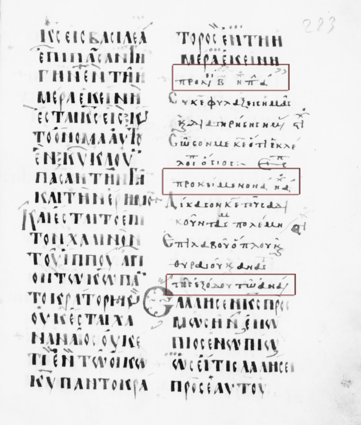 First reading for Hesperinos on Good Friday (Sinait. gr. 8, f.223r): Ex. 33:11–23, uncial maiuscule script with ekphonetic neumes, the preceding prokeimenon is composed in echos protos, rubrics and neumes are written in red ink